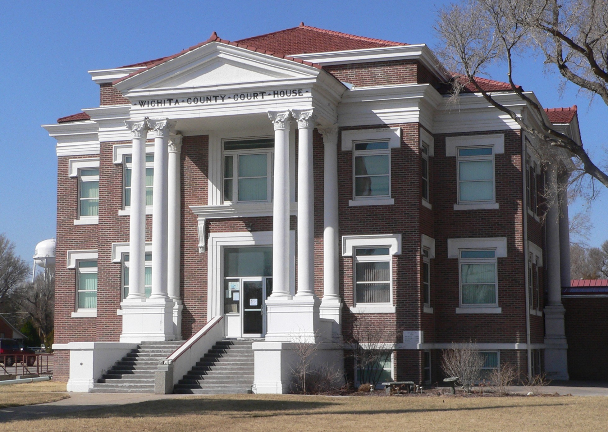 Wichita County courthouse in Leoti, Kansas; seen from the northeast.